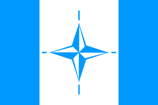 Flag of Mongolian Liberal Union Party.